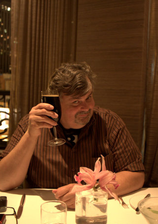 Canadian Chef Ted Reader dining at Ria Restaurant in Chicago, 21 October 2010